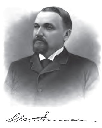 A sketch of Samuel M. Inman